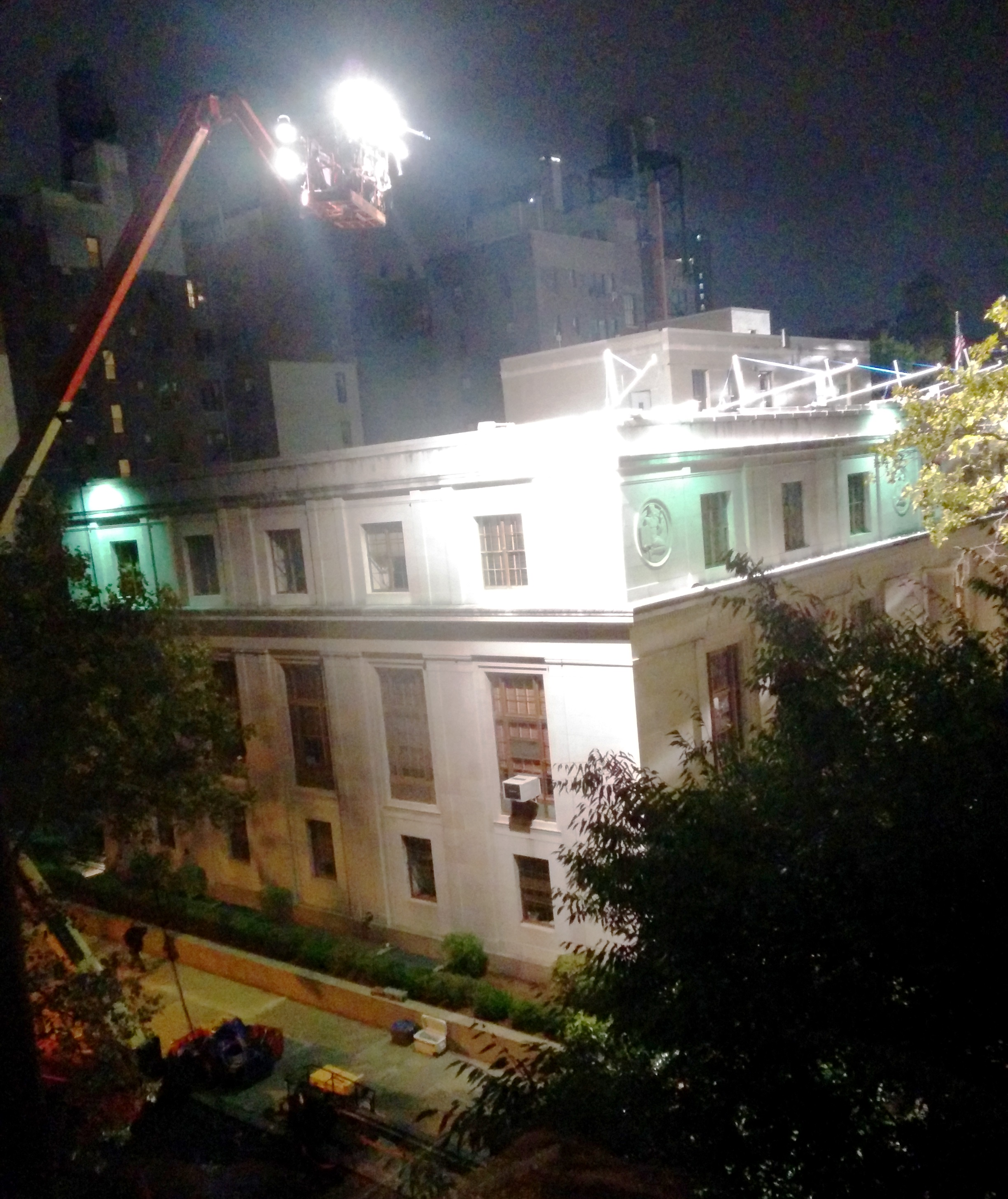 Lights and rain sprinklers for the filming of St. James Place in Brooklyn Heights.